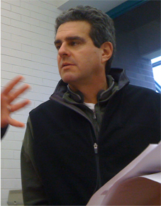 Michael Nozik on set in 2009.